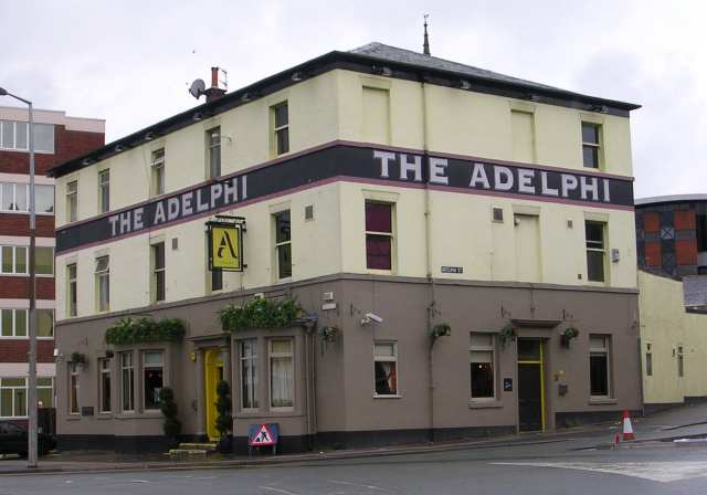 The Adelphi - Adelphi Street